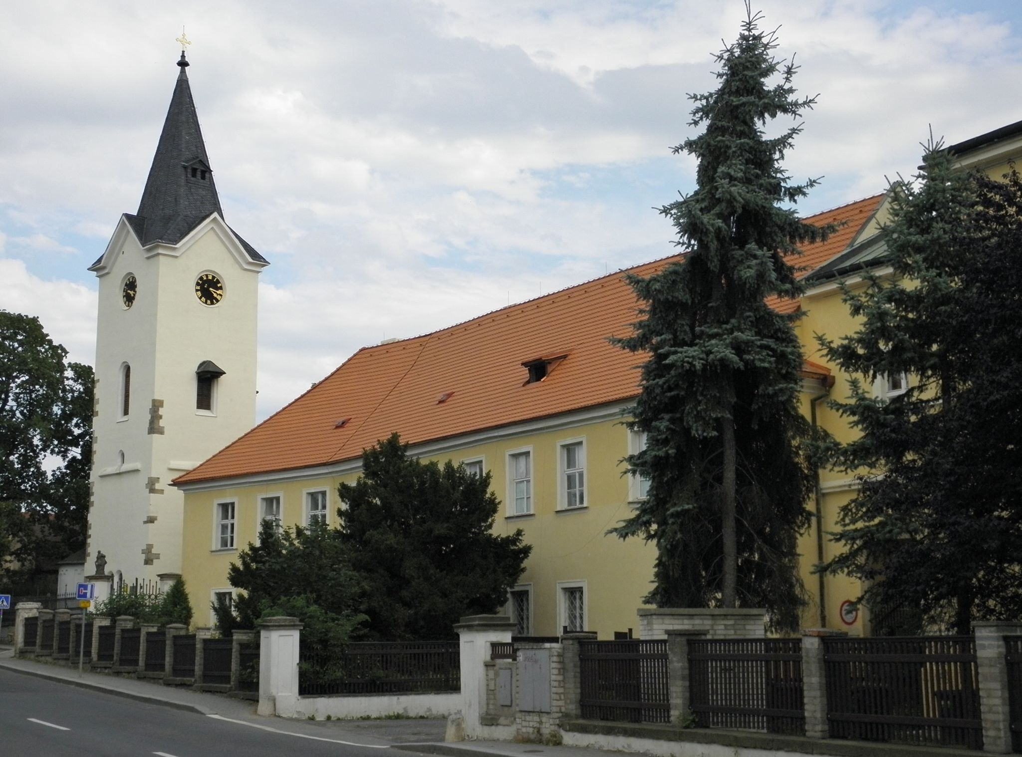 Dolní Počernice